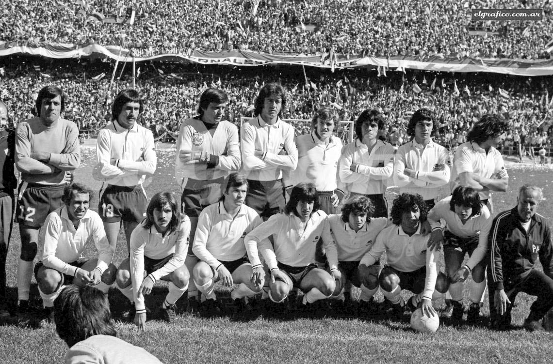 The Quilmes A.C. team that won the Primera División championship in Rosario.